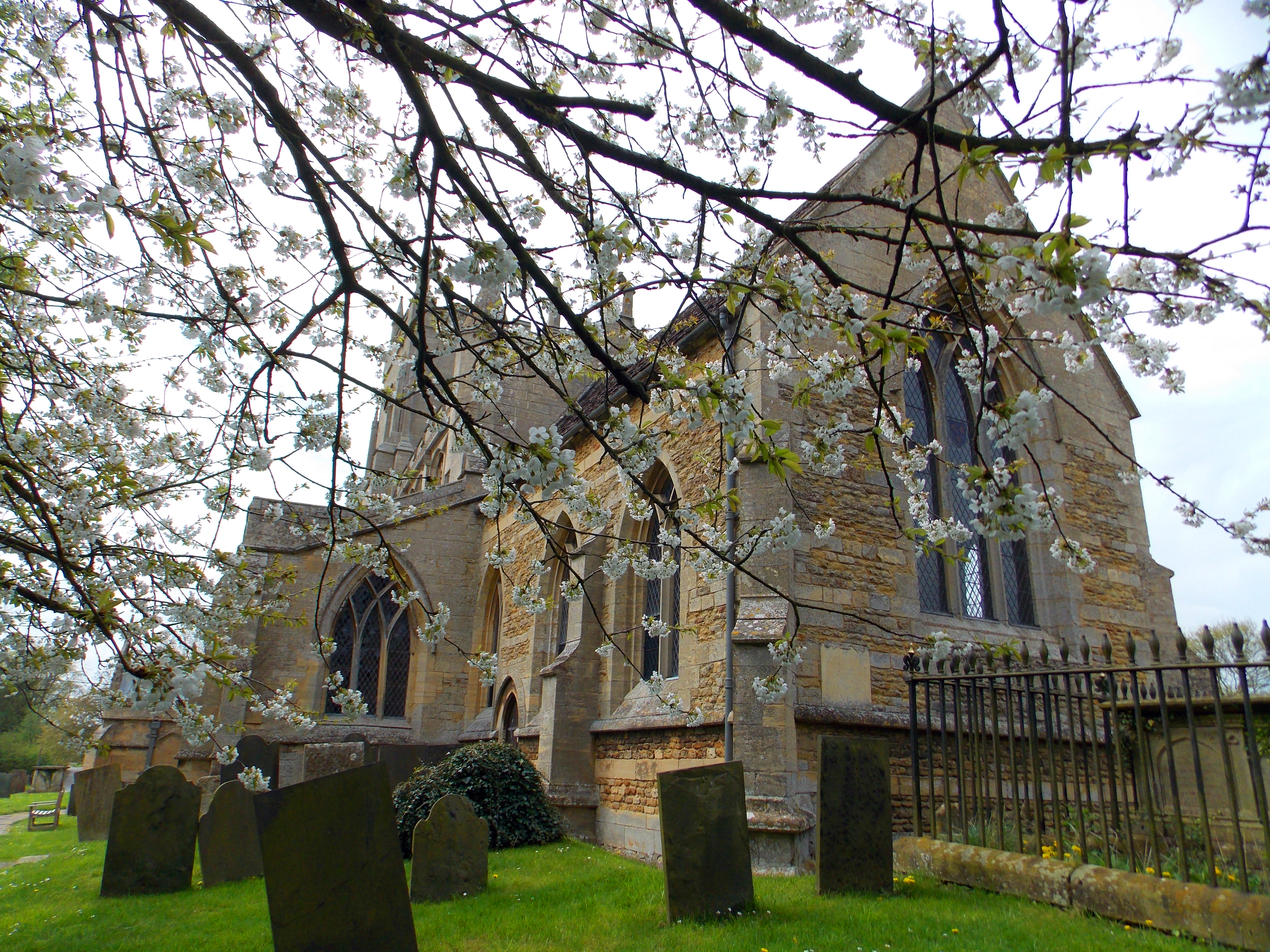 St James' parish church, Aslackby, Lincolnshire, seen from the southeast